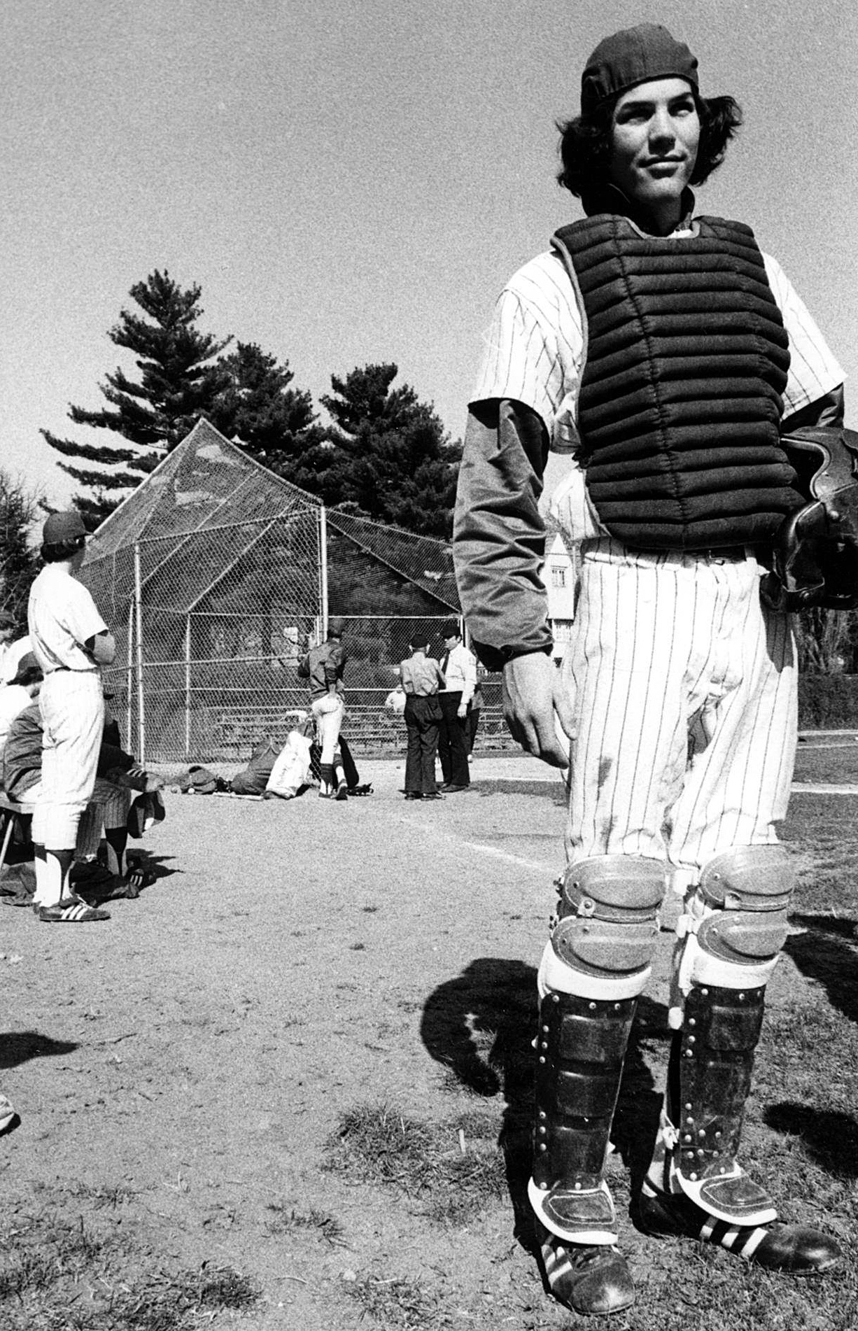 Tony Ridnell Played Catcher for the Bronxville Broncos in 1978, Bronxville, NY.